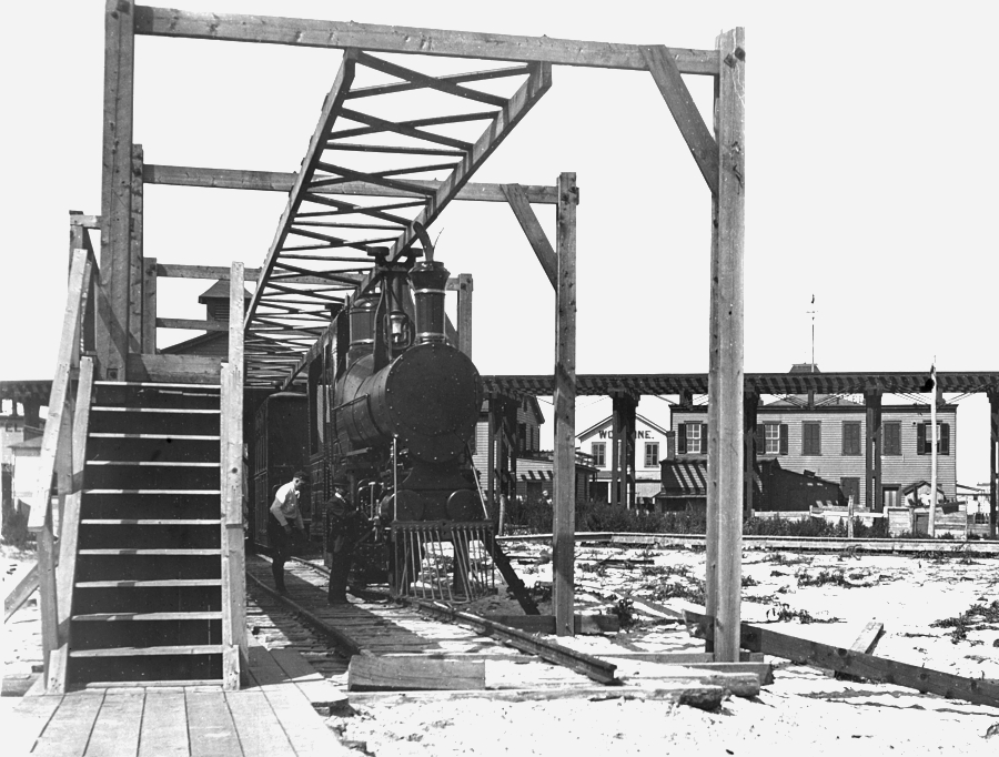 Maintenance yard of the of the Boynton Bicycle Railroad